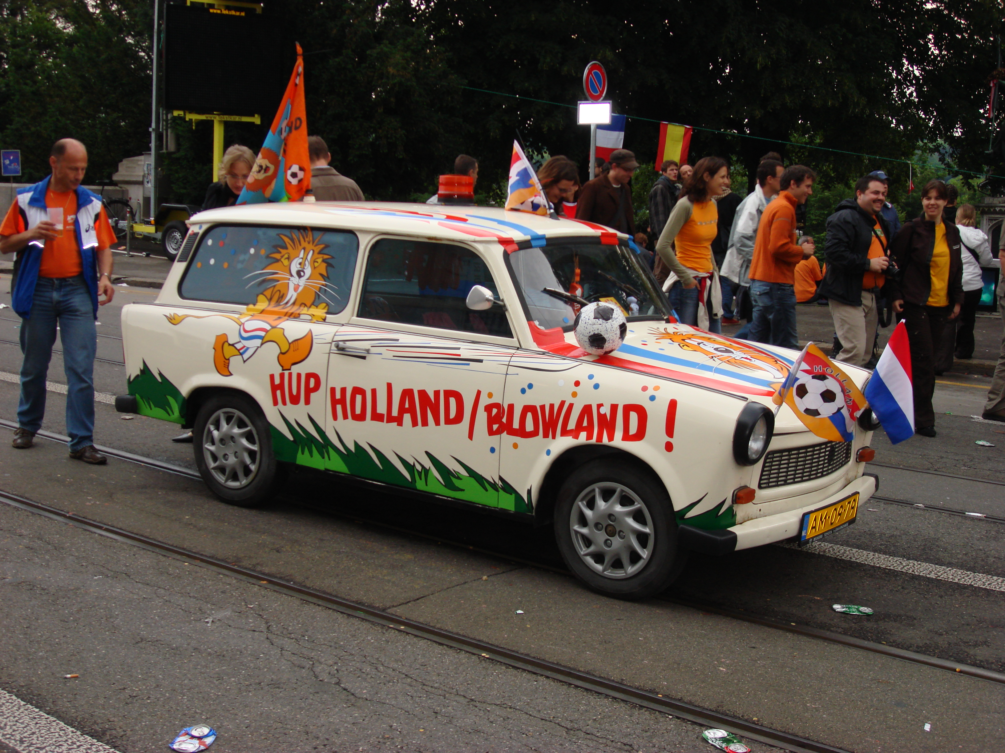 Hup Holland Auto Supporter of Holland soccer team